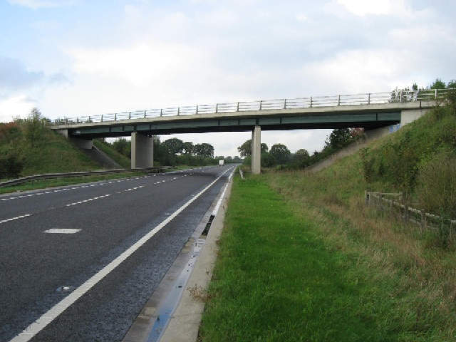 A Bridge Over The A19 The bridge carries the road from Easingwold to Raskelf.